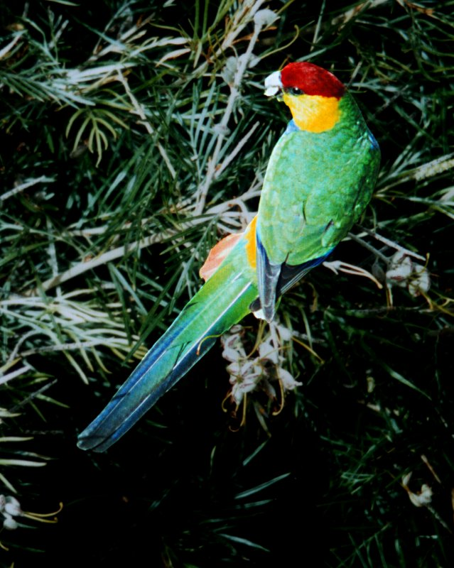 Photo taken by Bradford Jones, WikiCommon with his explicit permission.